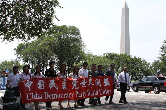 中国民主党世界同盟